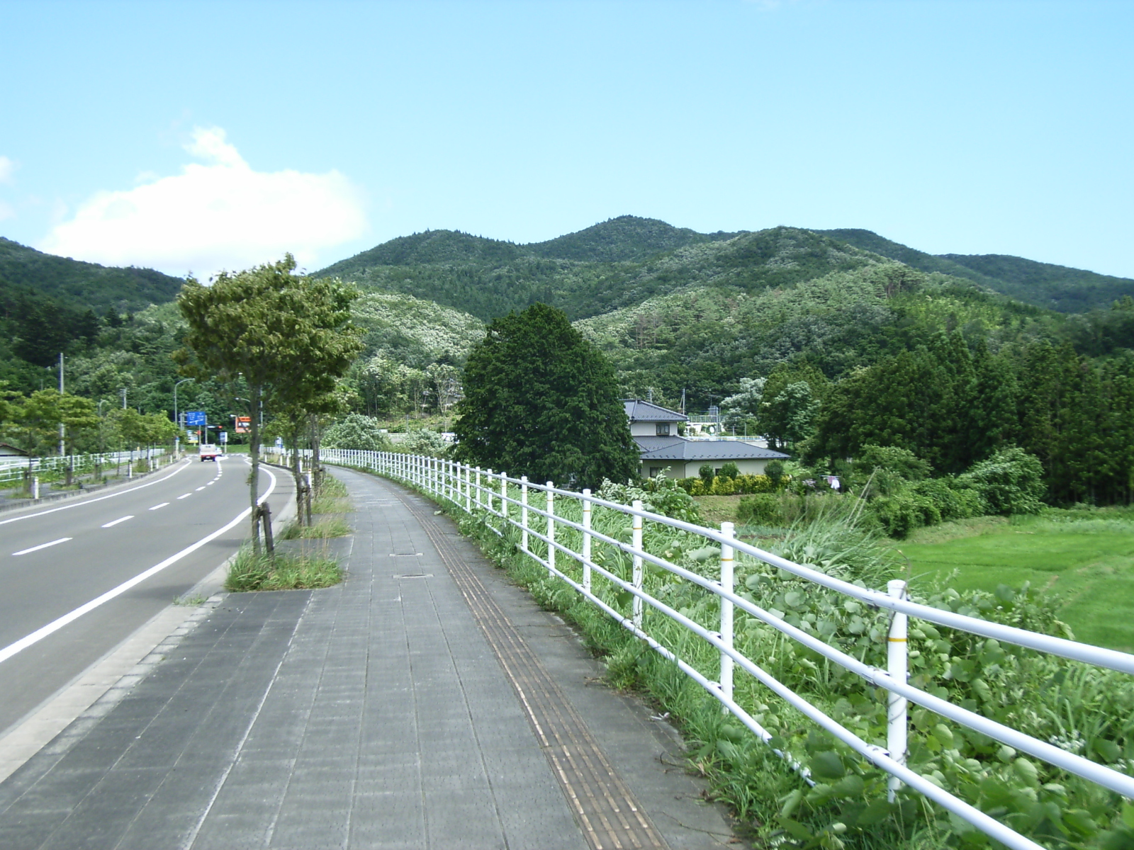 Mt. Gongen or Gongen Wood. Sendai, Miyagi prefecture, Japan.